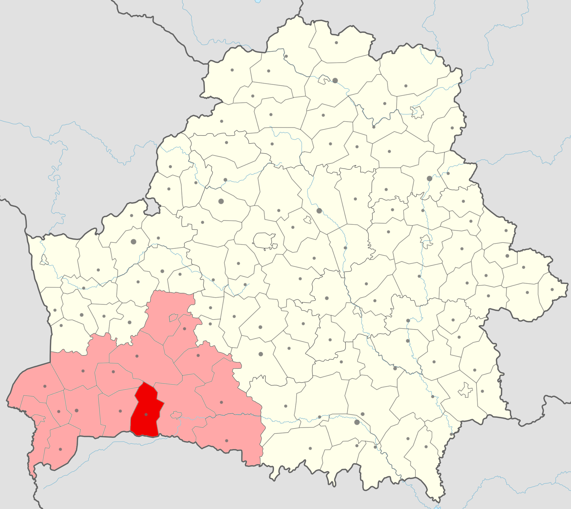 Location of Ivanaŭski rajon (red) in Bresckaja voblasć (light red) in Belarus.